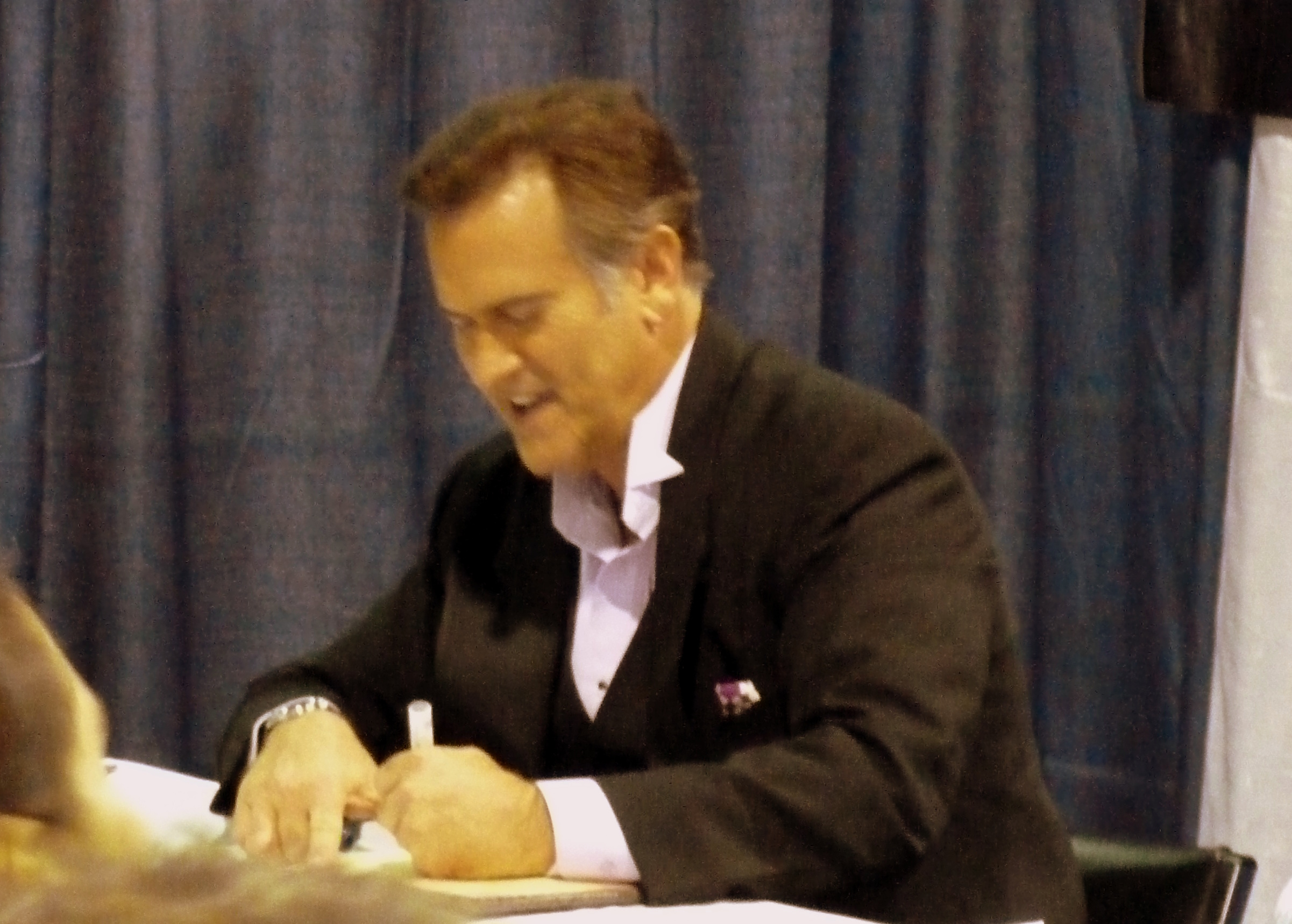 Bruce Campbell 03 Guests at Wizard World Chicago 2012.